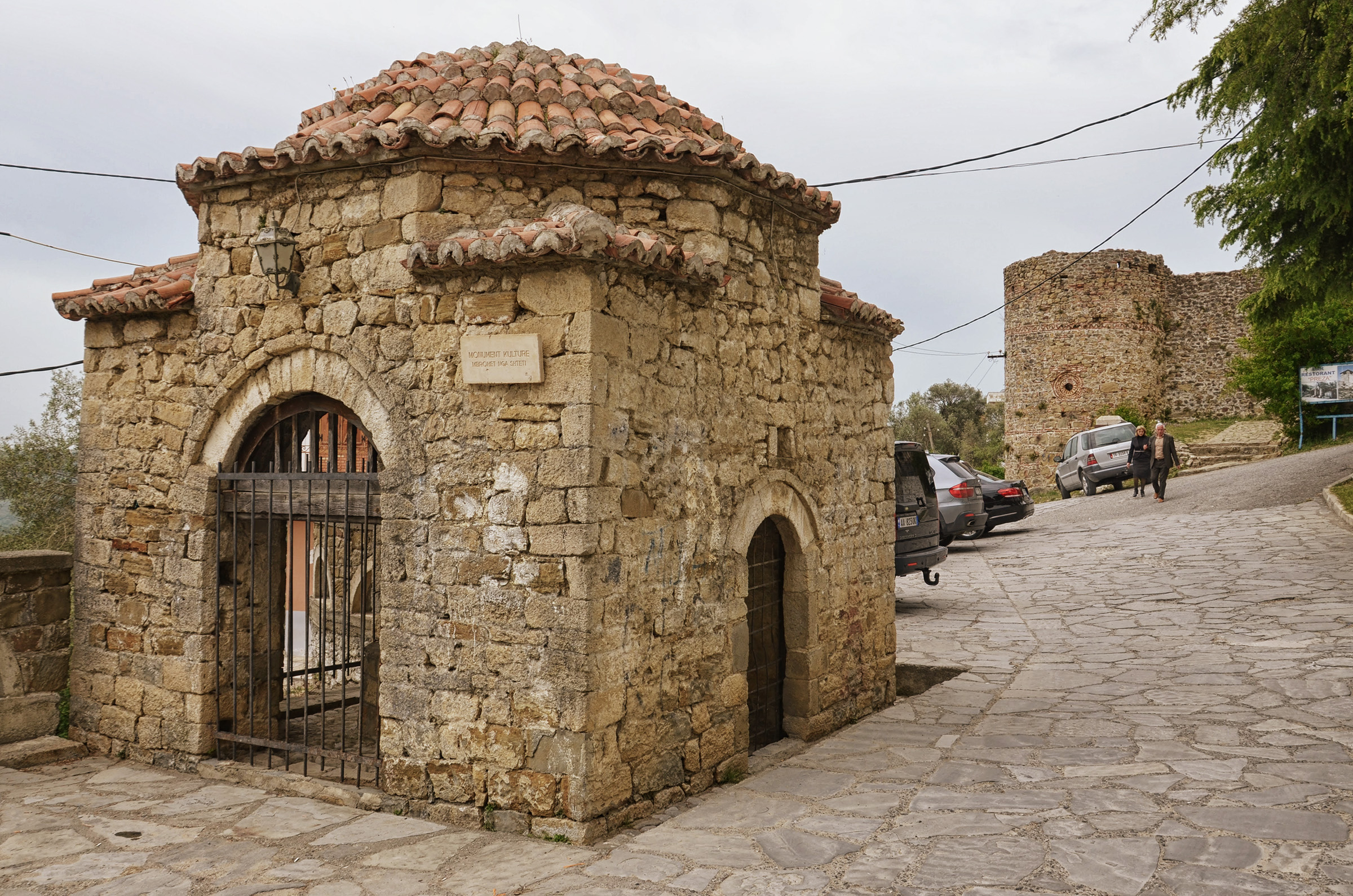 The well in Prezë, Albania that used to belong to the former bektashi teqe (Pusi i Teqesë), with the Prezë Castle in the background